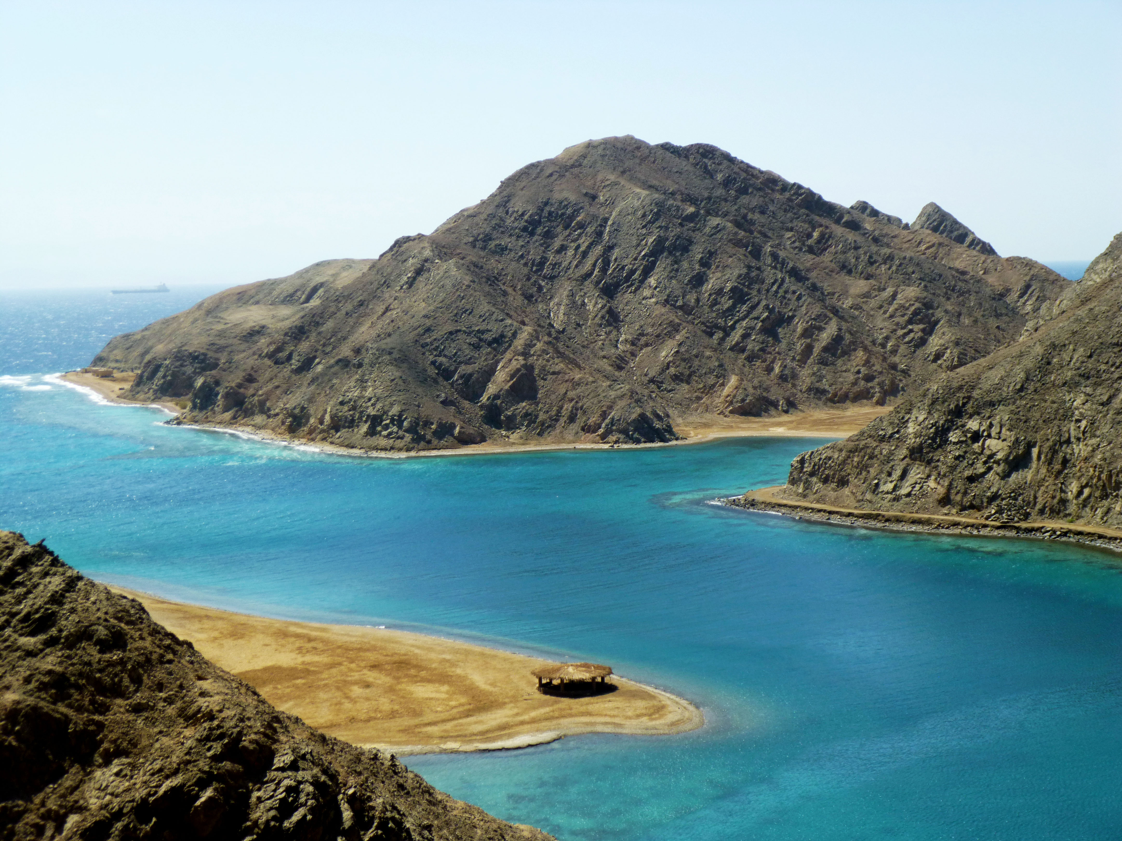 The fjord southern to Eilat